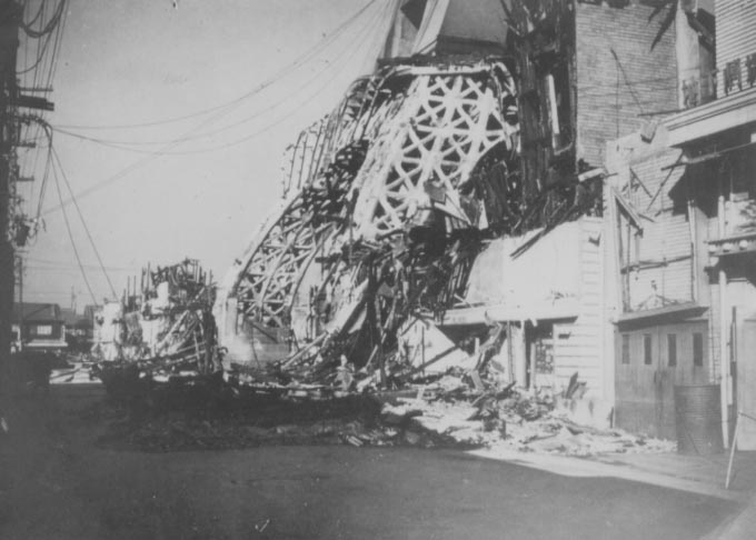 The original Tūtenkaku partially damaged after the 1943 fire.